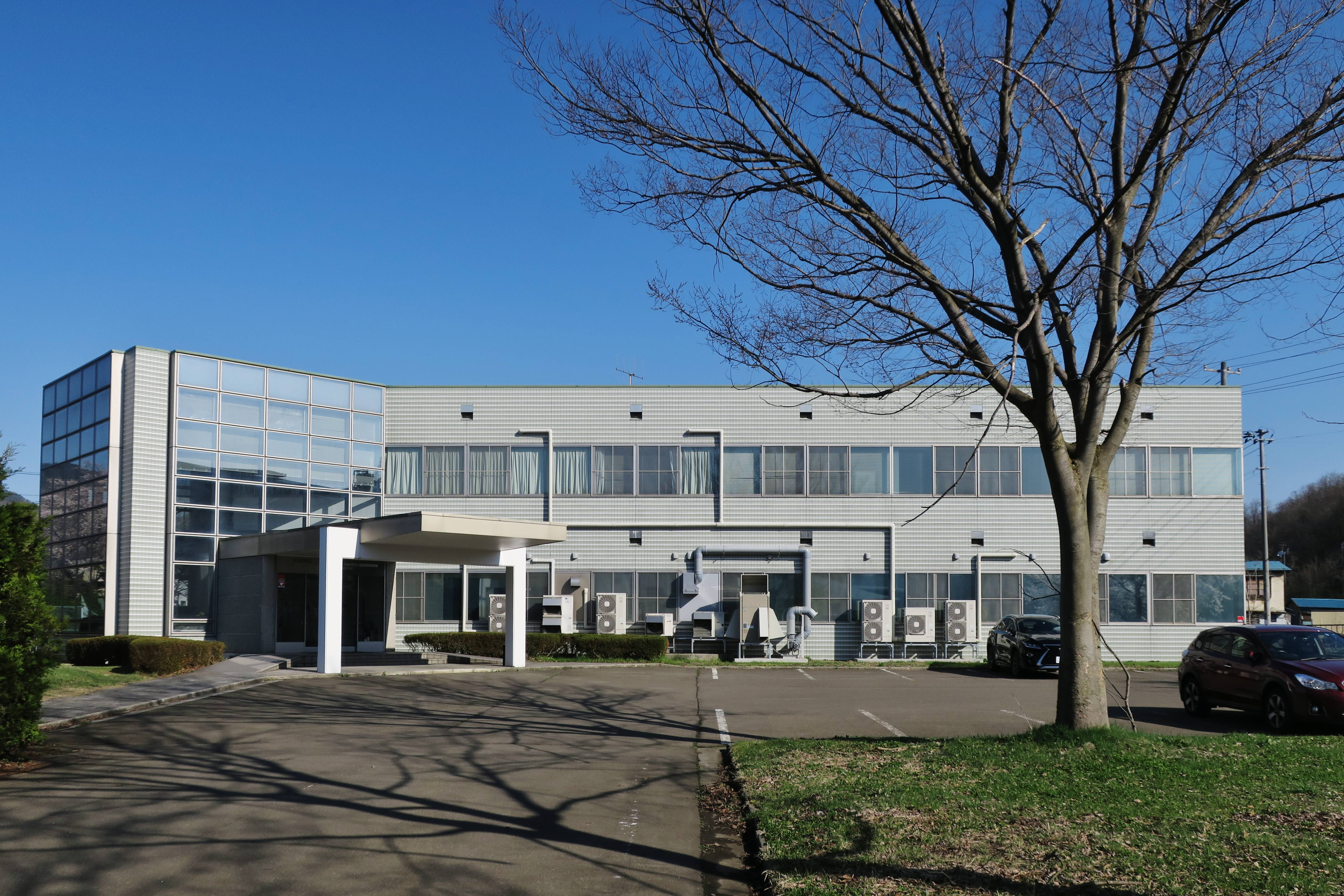 Institute for Mining Research and Studies (Kosaka, Akita).